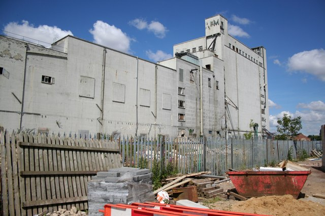 ABM malt kiln Long redundant and apparently destined for demolition